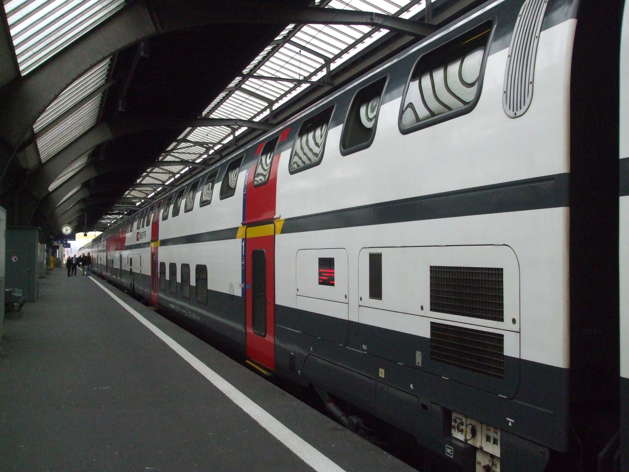 Double-decker Inter City (IC) train at Zurich Hauptbahnhof